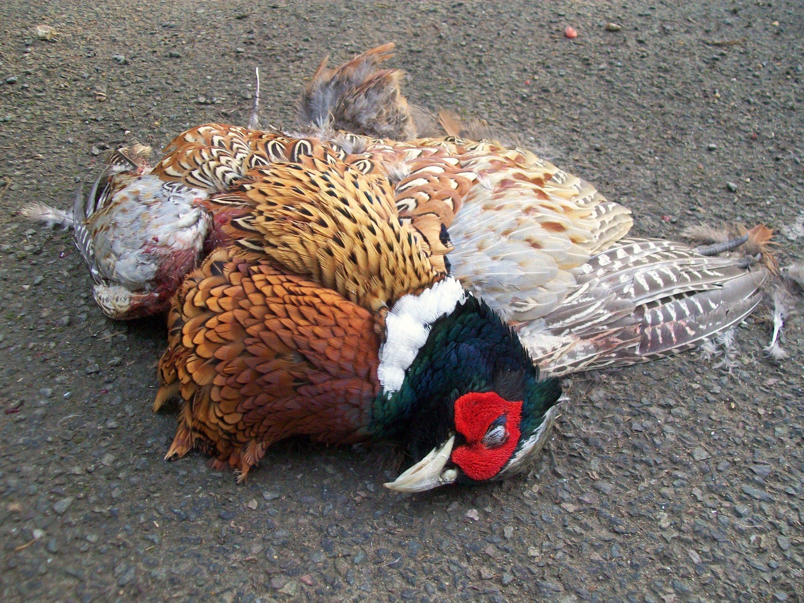 A dead Pheasant (Phasianus colchicus), 17 March 2011.